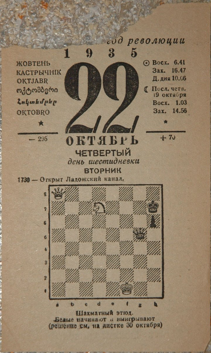 A page from a 1935 Calendar (USSR), illustrating the concept of шестидневка (sixday).